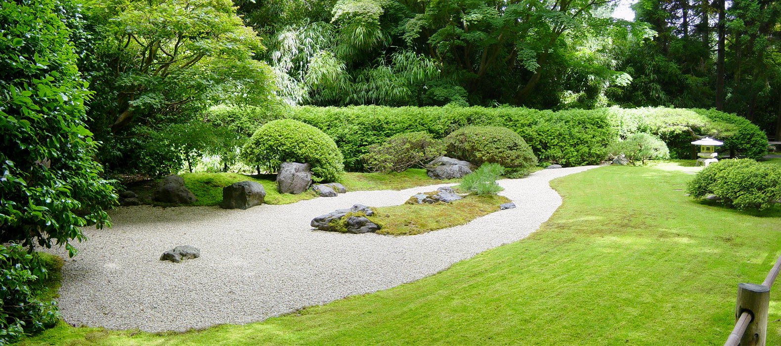 A small zen garden in the Japanese Tea Garden, Golden Gate Park, San Francisco, California. Composite of two images, taken July 24, 2005, composed, and uploaded by User:Leonard G.